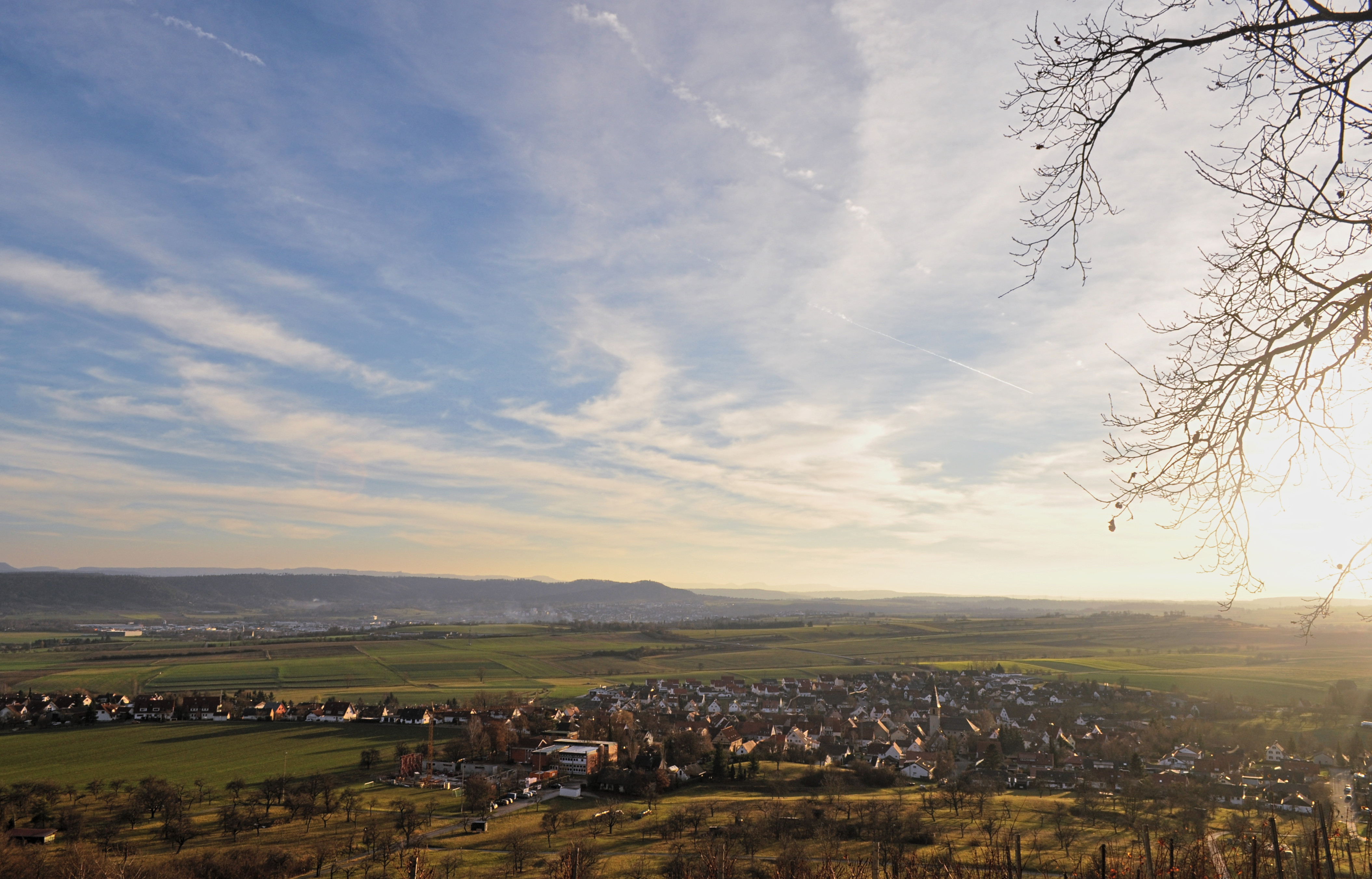 Wendelsheim, Rottenburg, BW, Germany as seen from Pfaffenberg